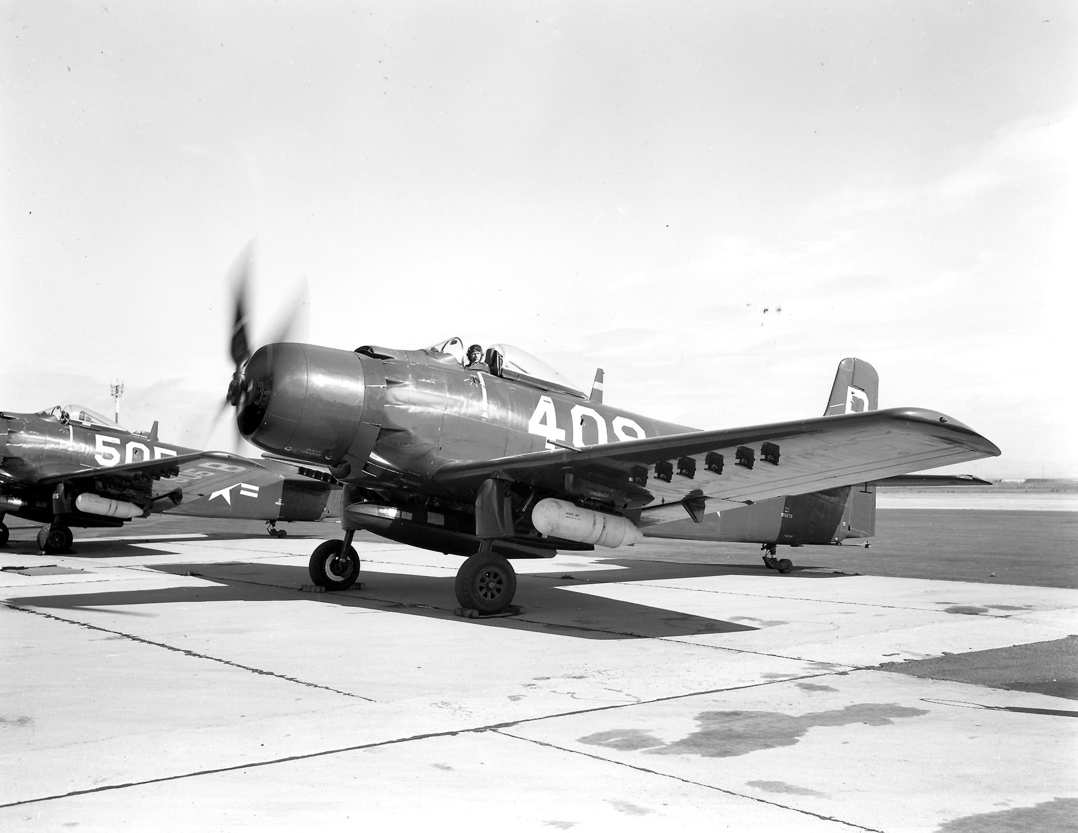 Two Douglas AD-2 Skyraiders at Naval Air Station Jacksonville, Florida (USA), in 1948. According to the BuNo. of the nearest aircraft (12227?) these Skyraiders are AD-2s. Up to 1957 the tailcode "B" belonged to Carrier Air Group Nineteen (CVG-19).[1]